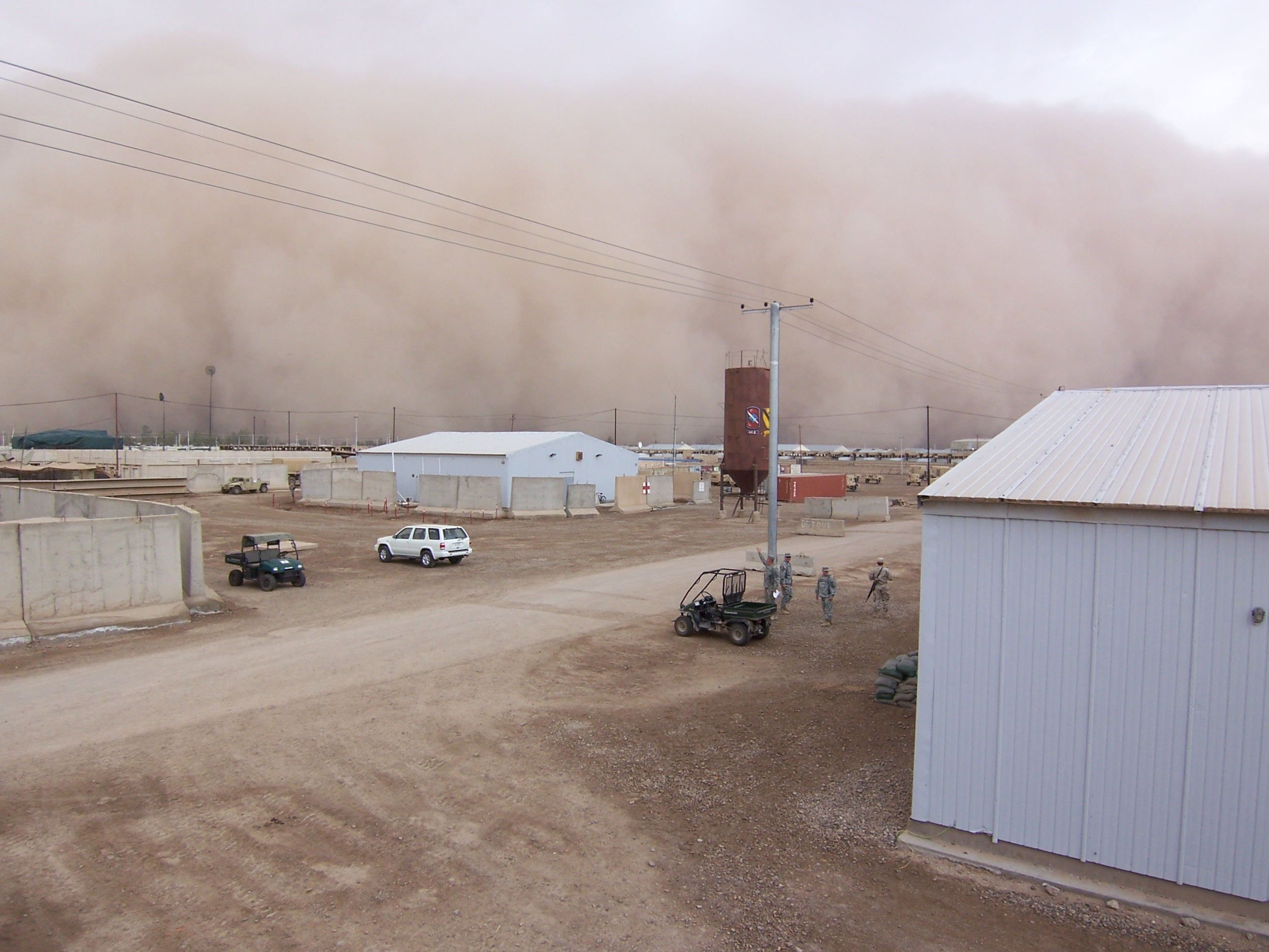 An early summer "Haboob" in Taji, Iraq, 2006